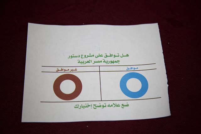 Original description: "The ballot Egyptian voters used in the constitutional referendum. The red circle (left) is a no vote. And the blue circle (right) is a yes vote, Cairo, Saturday, Dec. 22, 2012. (Yuli Weeks for VOA)."